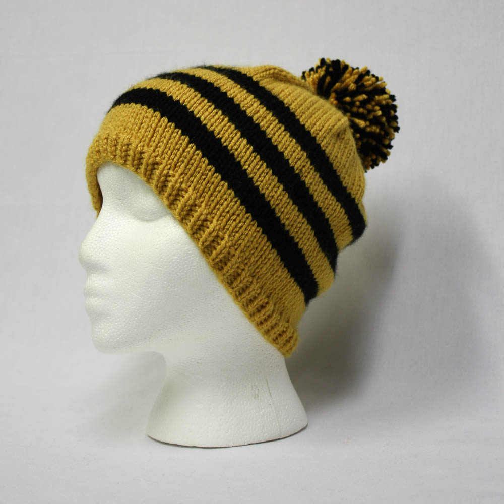 A knitted bobble hat, in Hufflepuff colours.